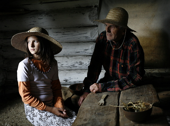 Fotografie Angelo Purgerta Personality rights warningAlthough this work is freely licensed or in the public domain, the person(s) shown may have rights that legally restrict certain re-uses unless those depicted consent to such uses. In these cases, a model release or other evidence of consent could protect you from infringement claims.